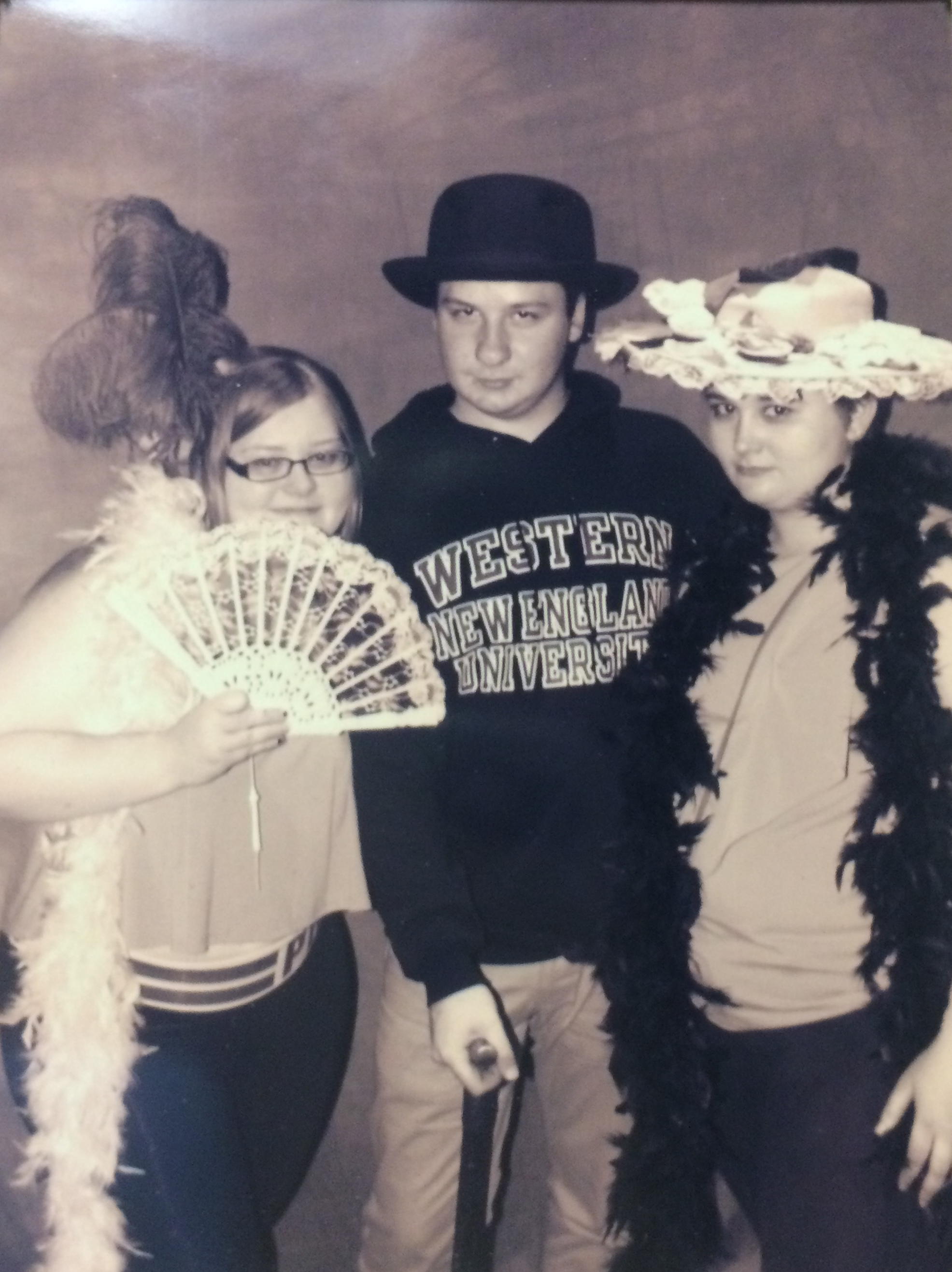 Sean partaking in some of his favorite past times.